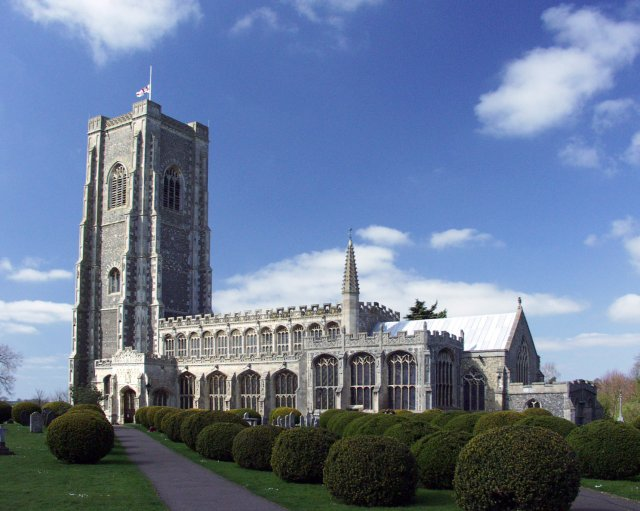 Lavenham. A fine 15th century Late Perpendicular 'wool church' - built on the proceeds of the mediaeval wool trade.